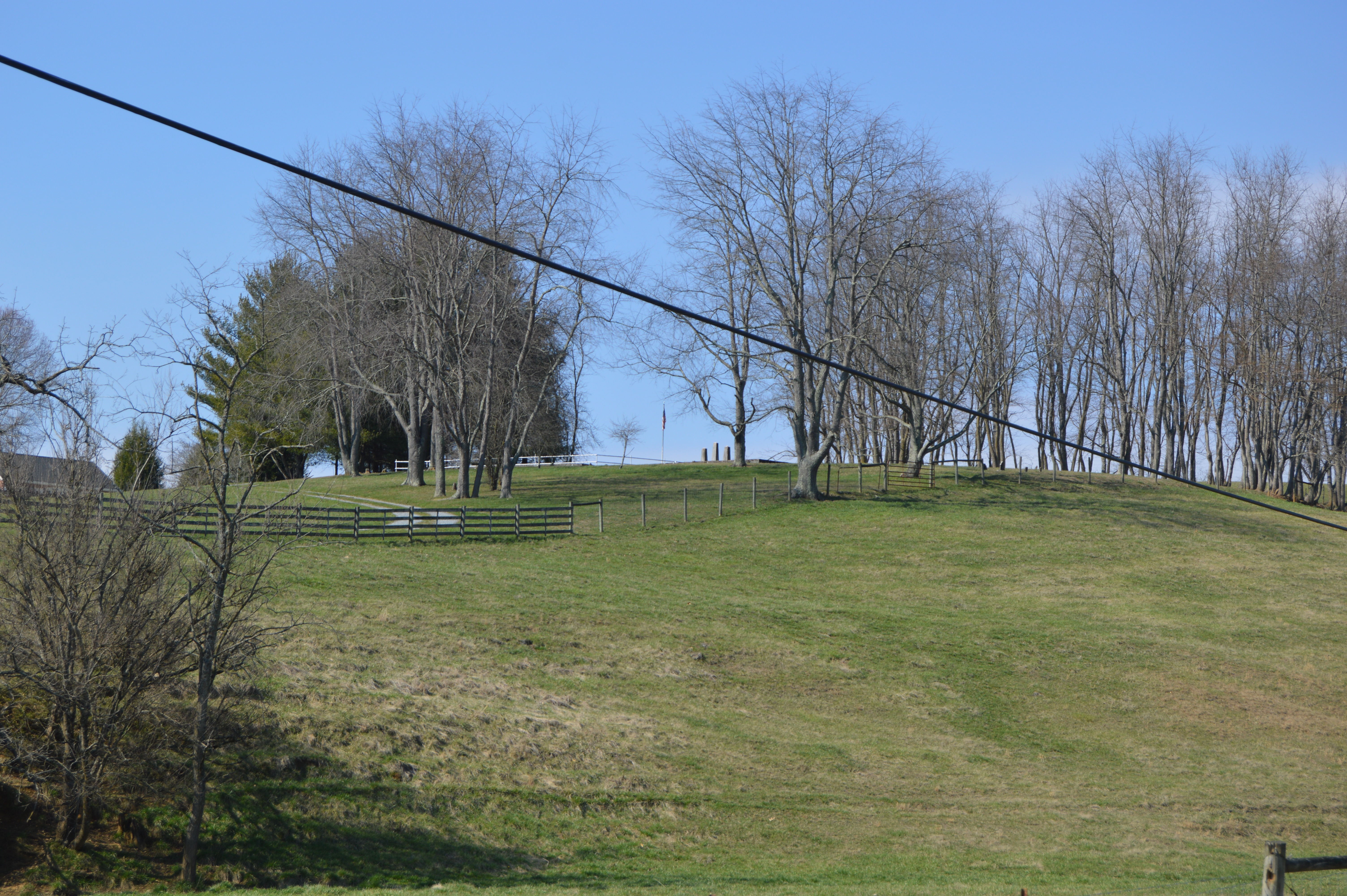 Distant view from the south of the Aspenvale Cemetery, located along Seven Mile Ford Road at Seven Mile Ford in Smyth County, Virginia, United States. The cemetery is listed on the National Register of Historic Places.